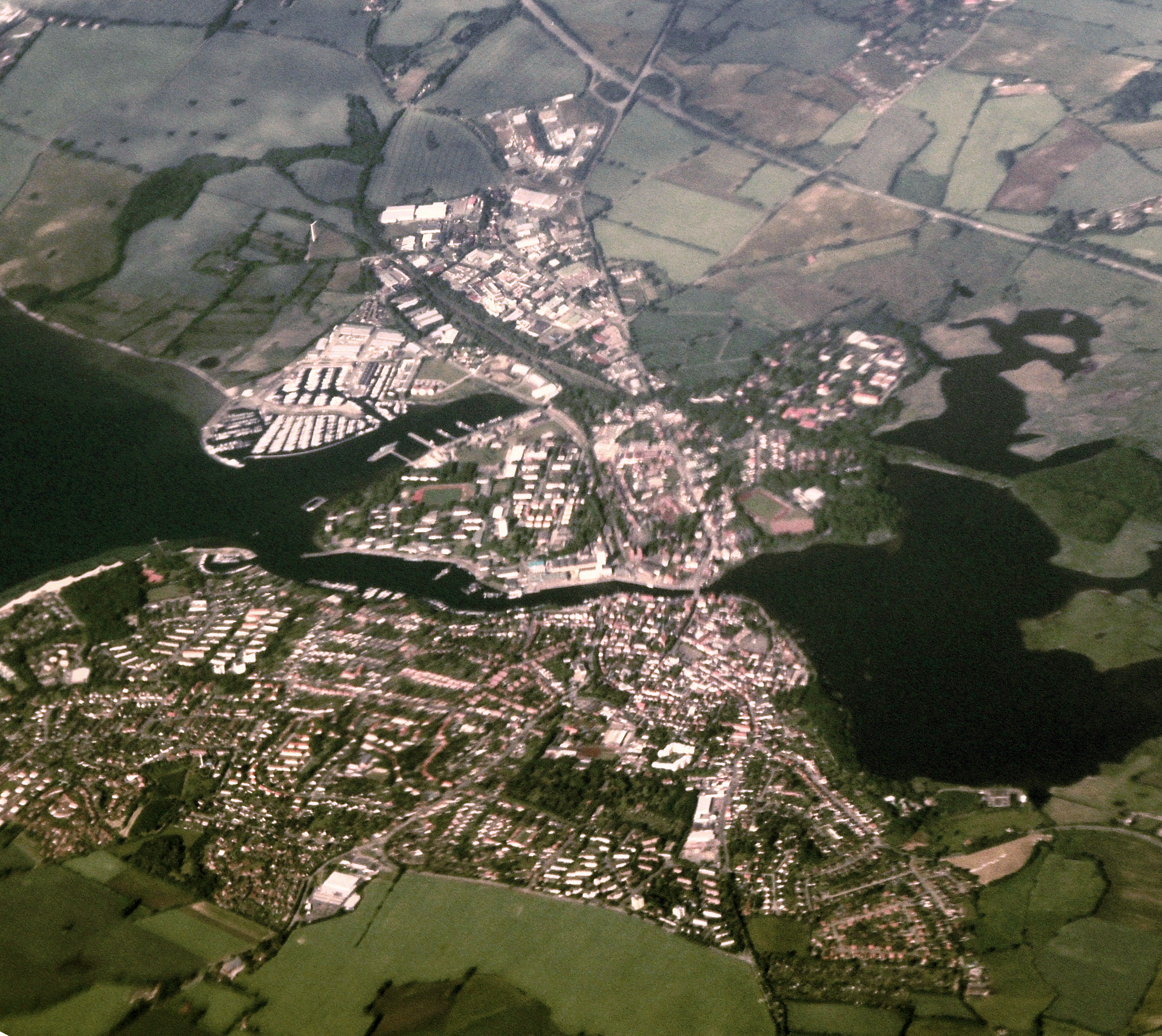 Aerial view, from the east towards west, of northeastern Schleswig-Holstein state, north Germany.